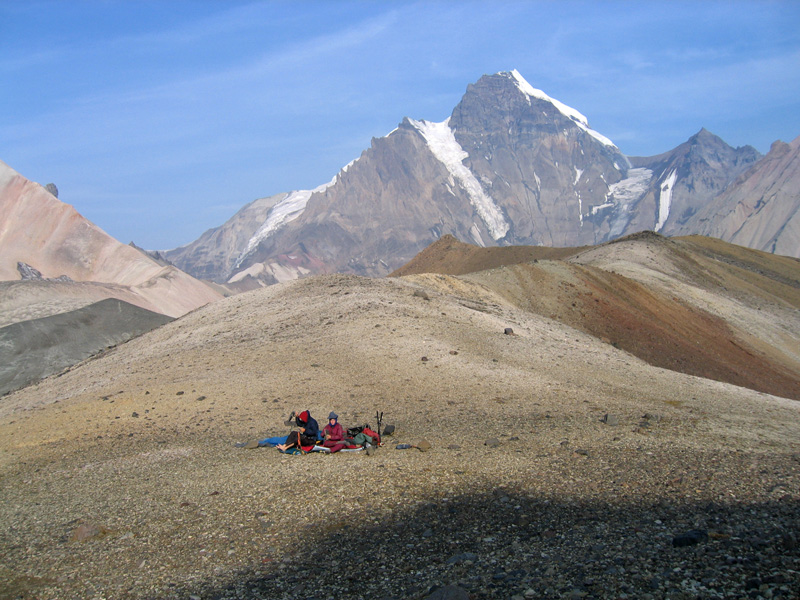 Uploaded from : Erin McKittrick, Ground Truth Trekking, own work